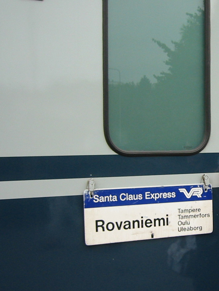 Santa Claus Express train Rovaniemi - Helsinki of Finnish railway company VR. Photo taken at Rovaniemi Railway Station.